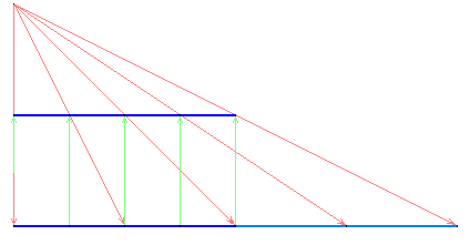 viewing lines as infinite sets of points, the left half of the lower blue line can be mapped one-to-one (green correspondences) to the higher blue line, and in turn to the whole lower blue line (red correspondences); therefore the whole lower blue line and its left half have the same cardinality